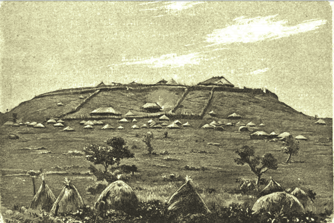 A depiction of a "Katama", or garrison-camp, in Boroma.